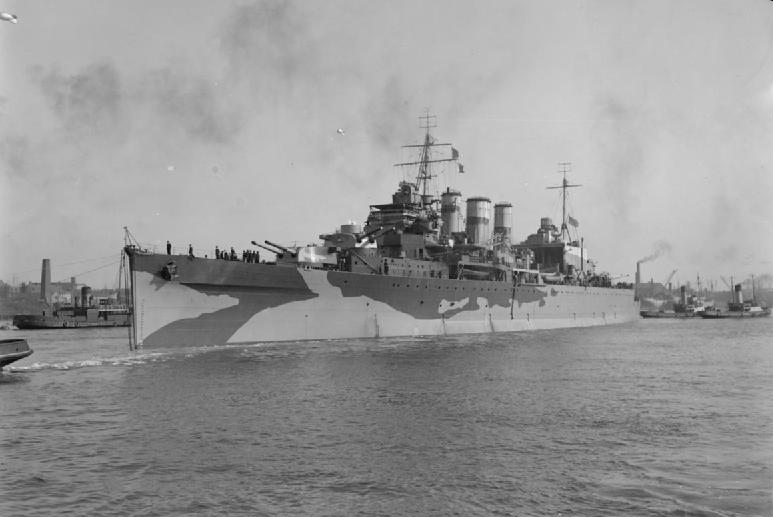 British heavy cruiser HMS SUFFOLK under tow on the Tyne.